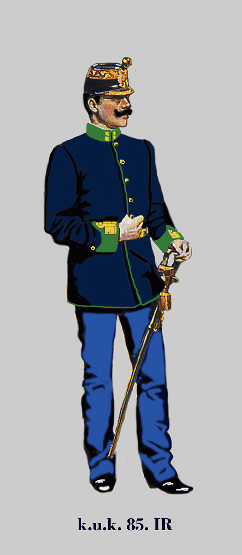 1st Lieutenant of the Austria-Hungarian (k.u.k.). 85th hungarian Infantry Regiment in Parade dress. 1914